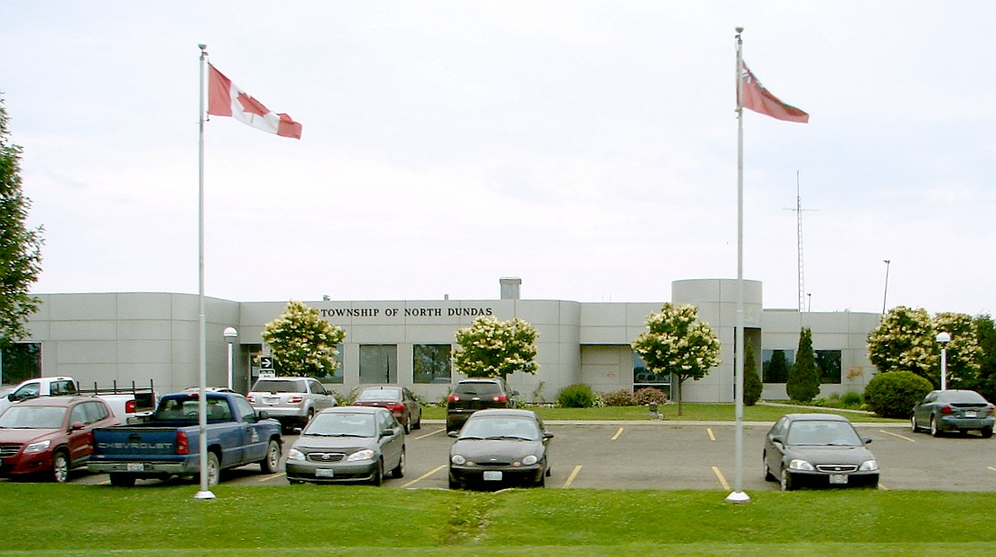 North Dundas Township offices, Ontario, Canada